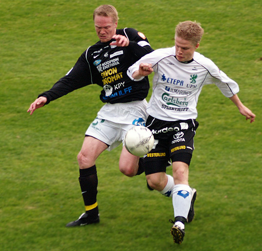 Home team FC Haka's (White shirt) Mikko Innanen side by side with visiting KuPS captain Jani Hartikainen. Game ended 1-0 to FC Haka. 28th April 2005. Finnish Veikkausliiga season opener in Valkeakoski, Finland. Author: Juha Makkonen Own work